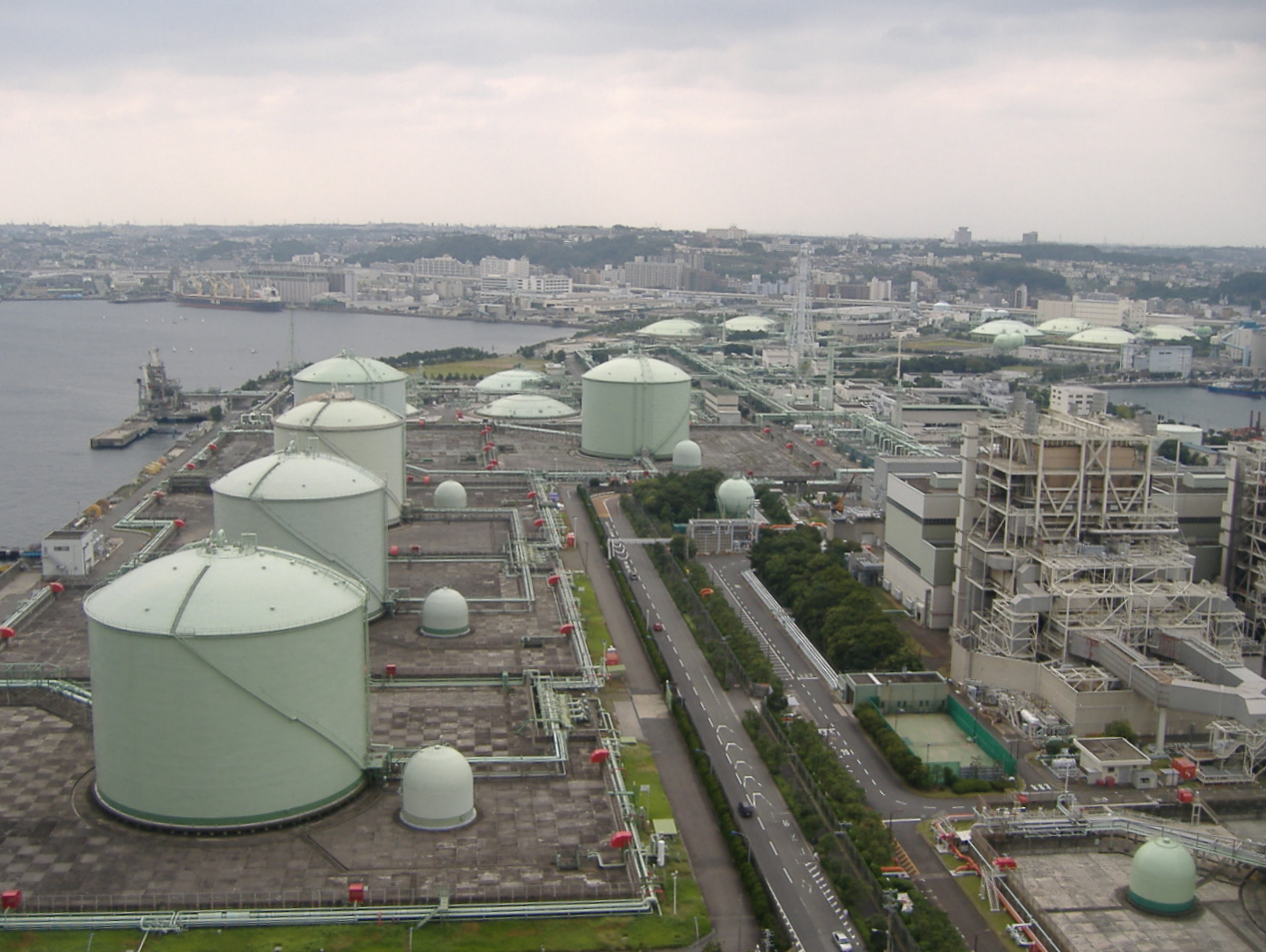 Tokyo-gas Negishi LNG Terminal (Yokohama, Japan)